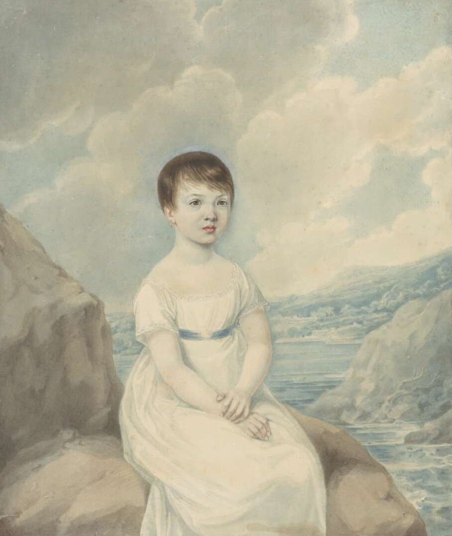 Portrait of Elizabeth Isabella Broughton, about seven years old, 1814, watercolour ; 36.3 x 30.3 cm